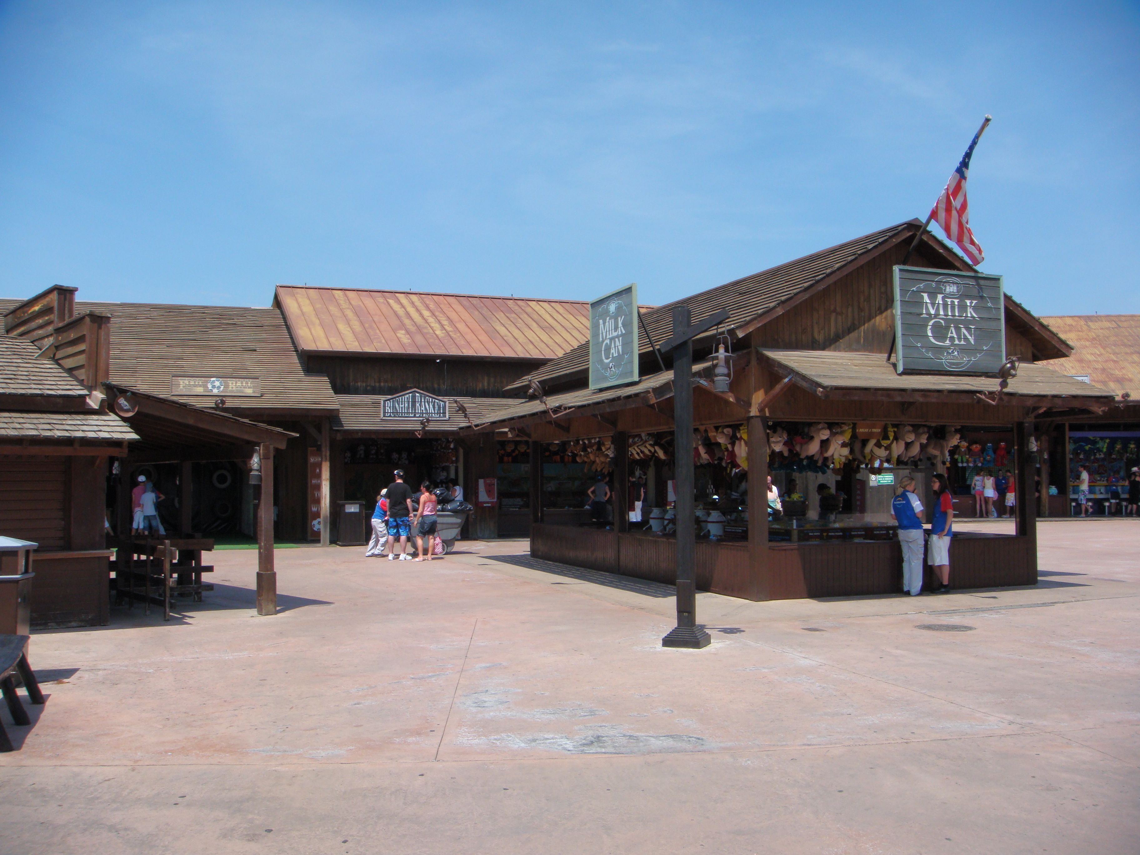 Gaming area in Far West, Port Aventura.